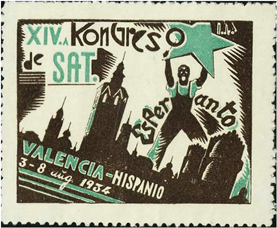 Stamp of the 14st congress of SAT in Valencia, 1934.